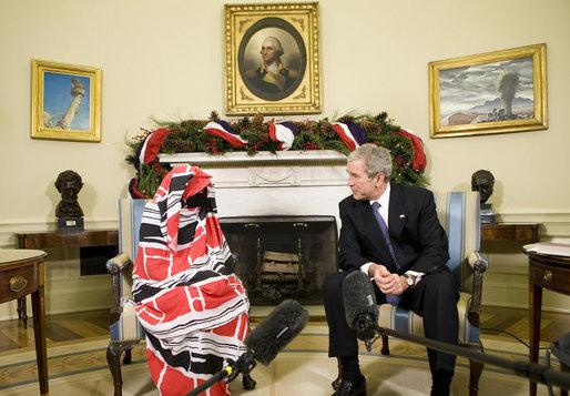 GWB meeting with Darfur Human Rights Activist Dr. Halima Bashir